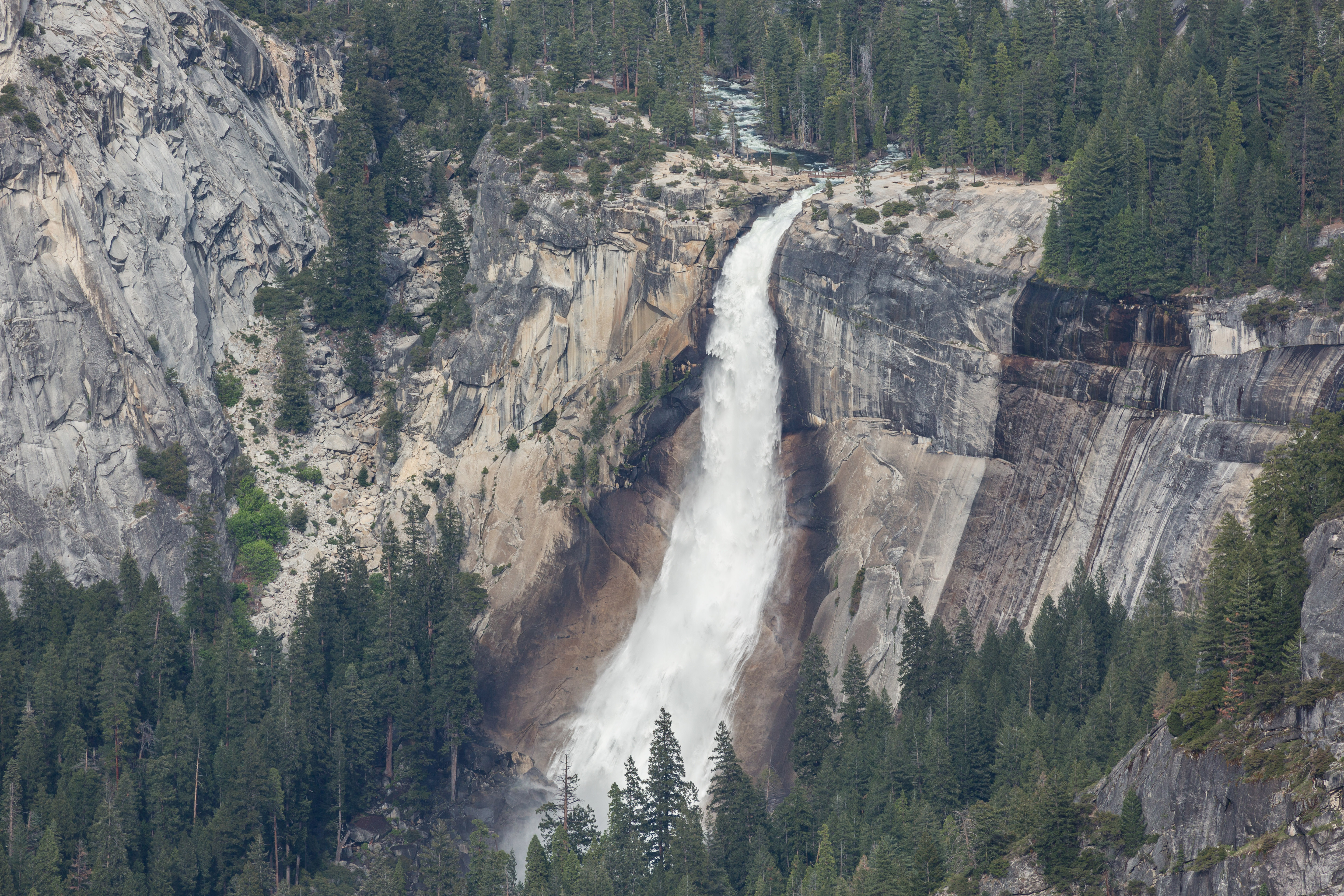 Nevada Fall as viewed from the Glacier Point lookout in Yosemite National Park, California, United States.